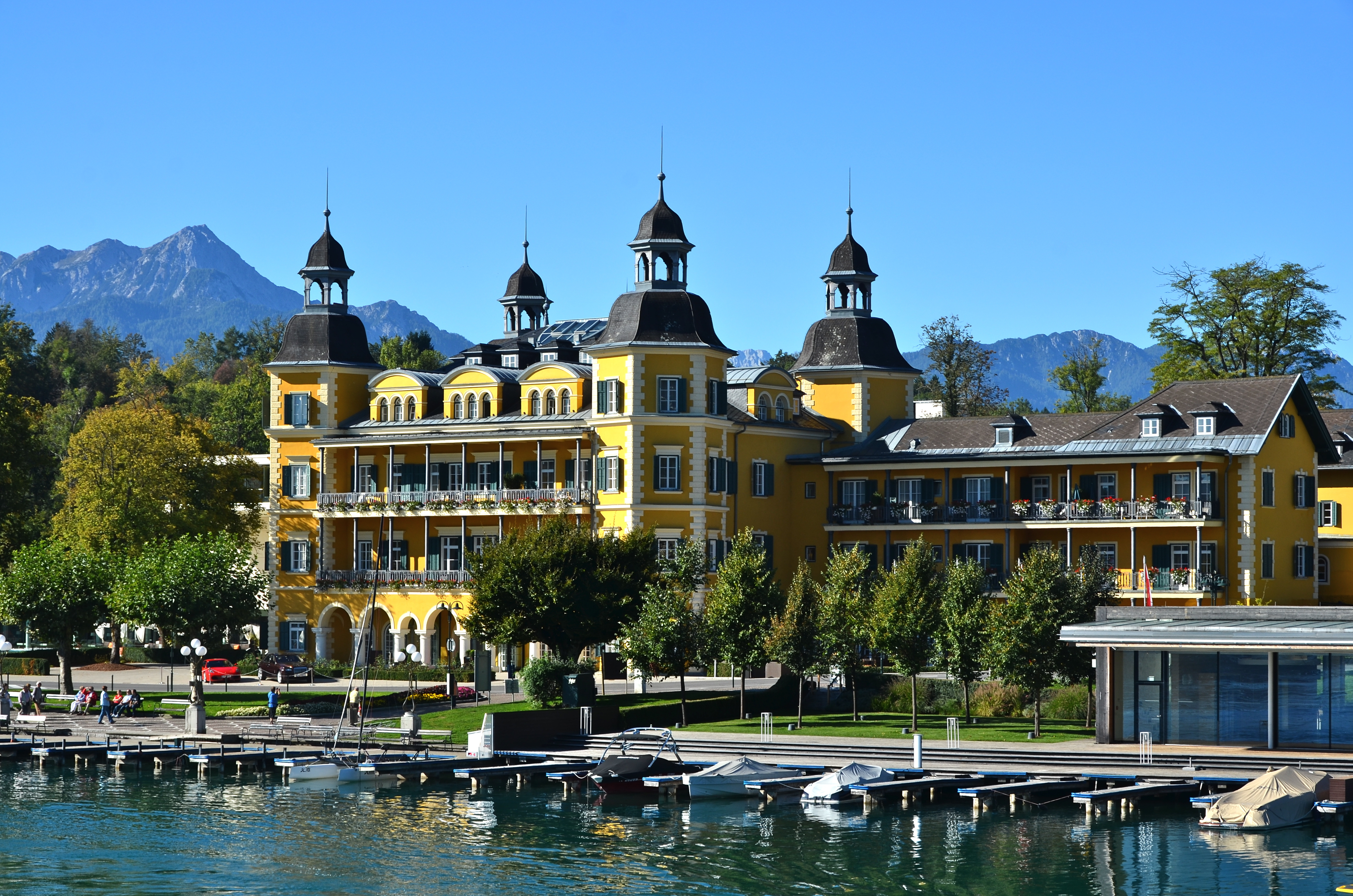 Castle Velden on Seecorso #10 in Velden am Wörthersee, district Villach Land, Carinthia / Austria / EU